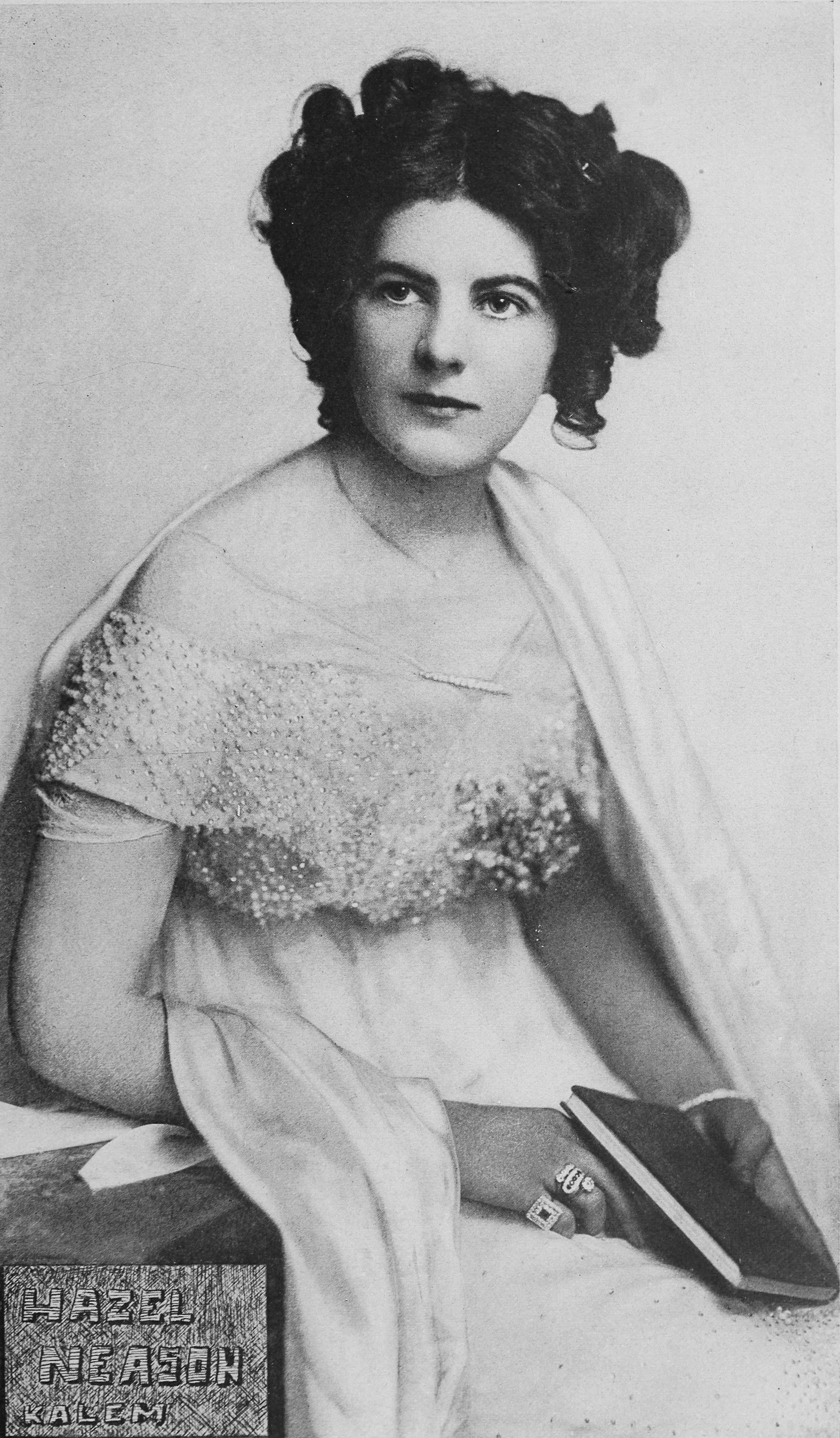 Portrait of Hazel Neason